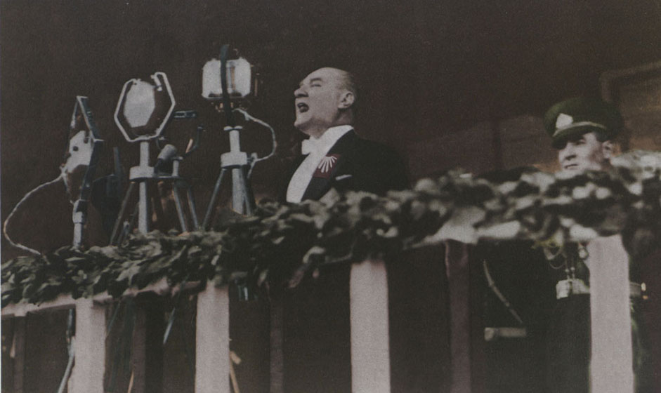 Atatürk speaks during the 10th anniversary celebrations of the Republic of Turkey.